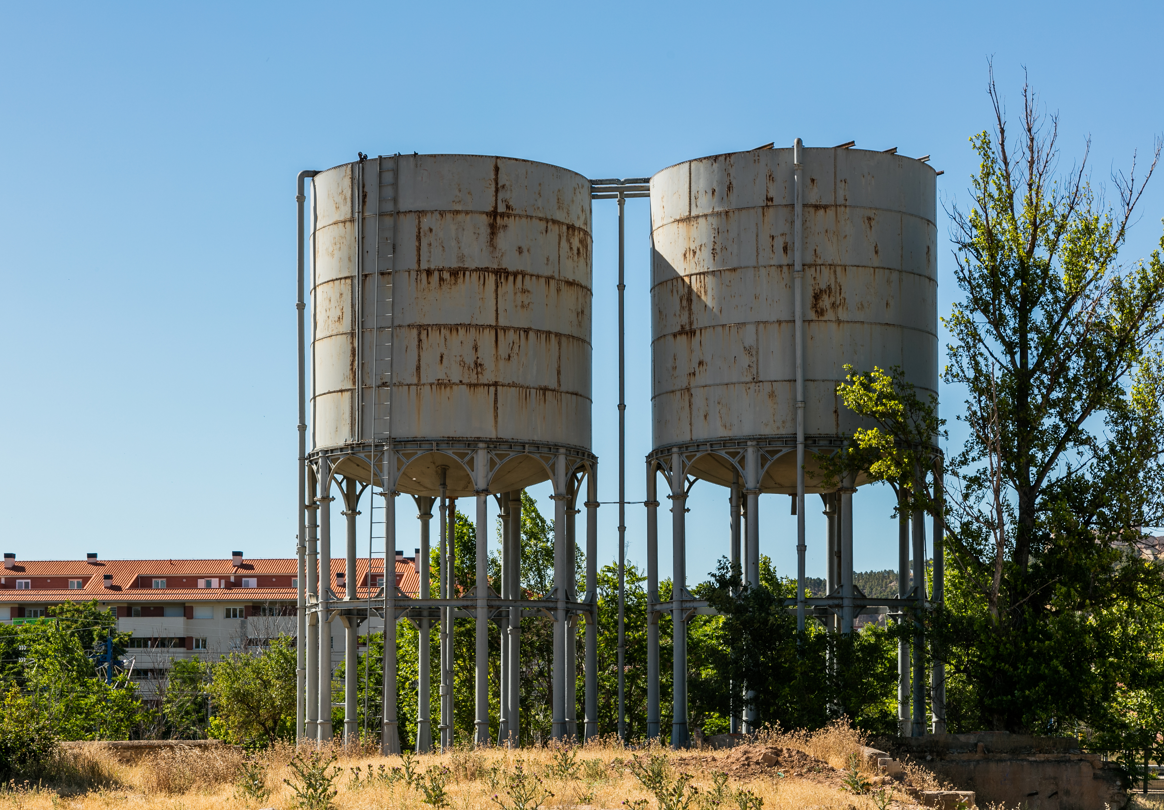 Old railway station, Calatayud, Spain